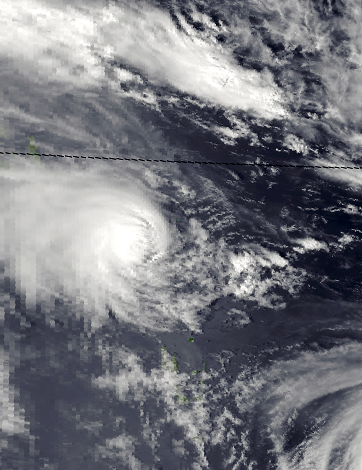 Severe Tropical Cyclone Nina on January 2, 1993